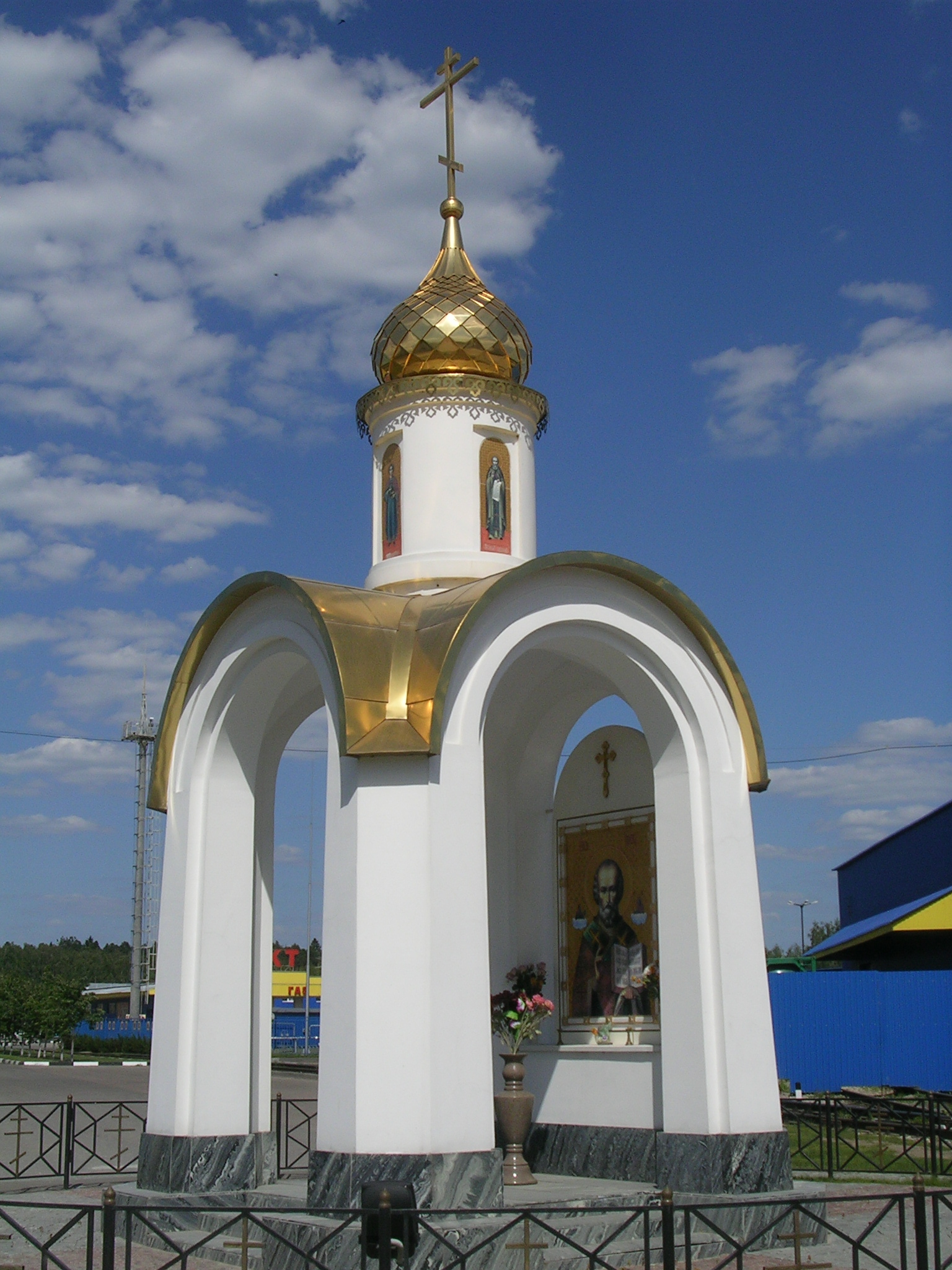 Saint Nicholas chapel (2008) in Glukhovo district of Noginsk city, Moscow region.